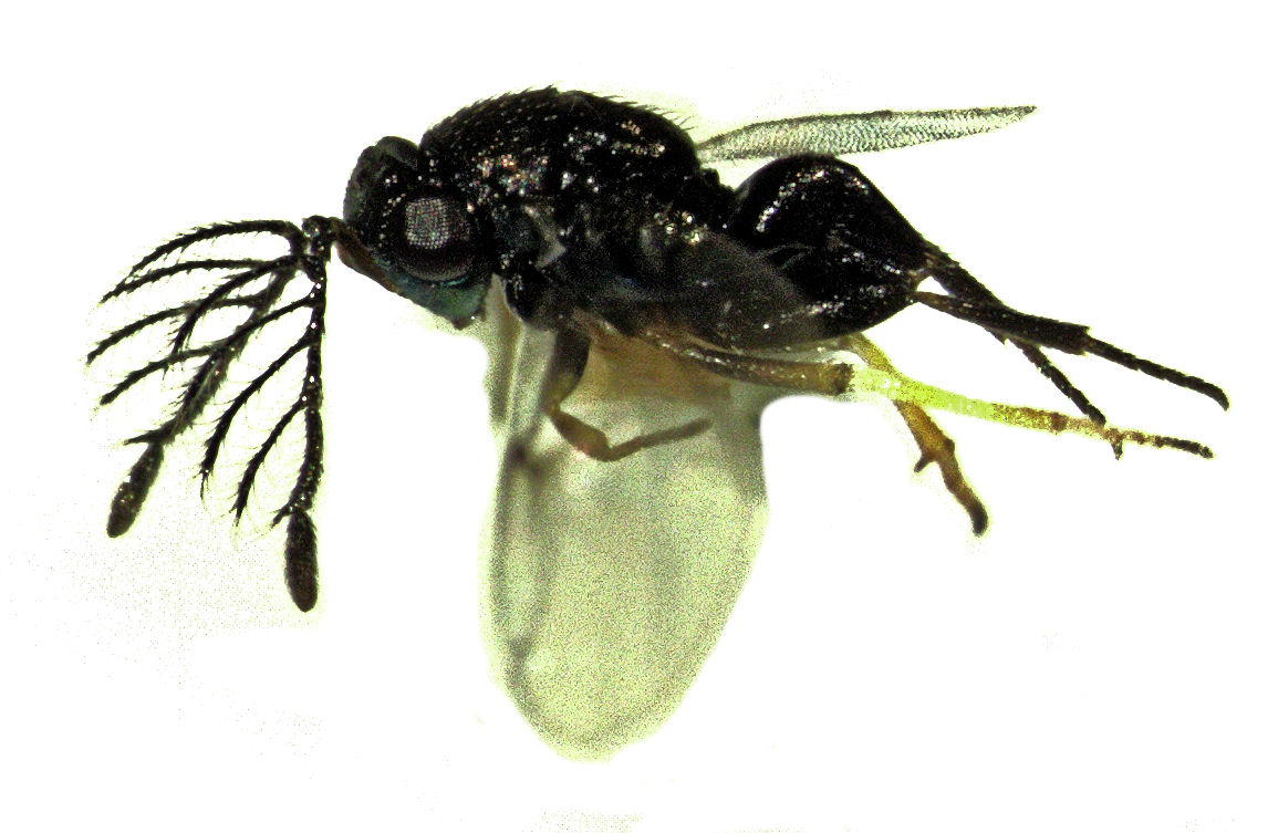 adult male Tetracnemoidea sydneyensis, length about 1.2 mm